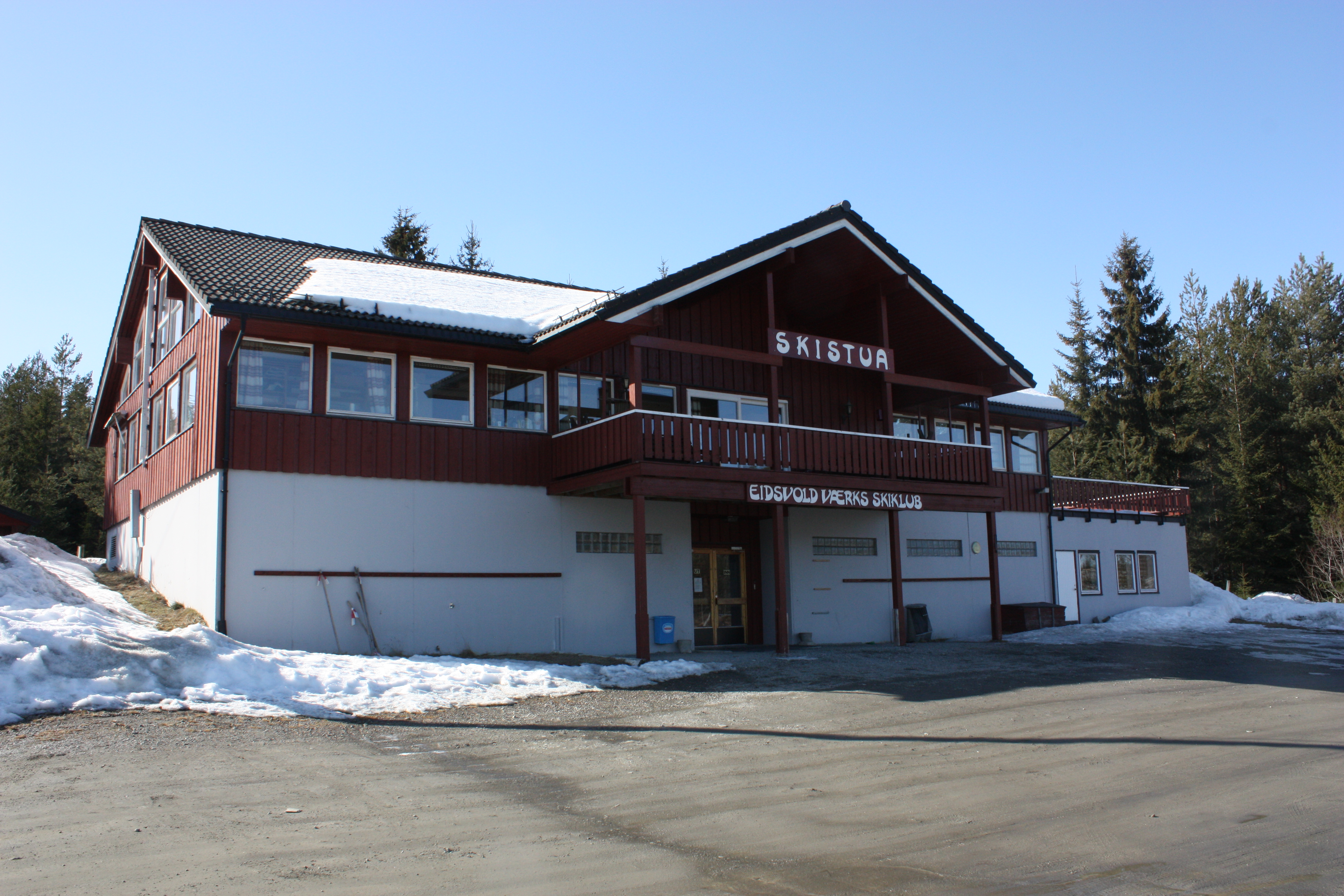 "Skistua", the club house of Eidsvold Værks Ski Club (Eidsvoll, Akershus, Norway).